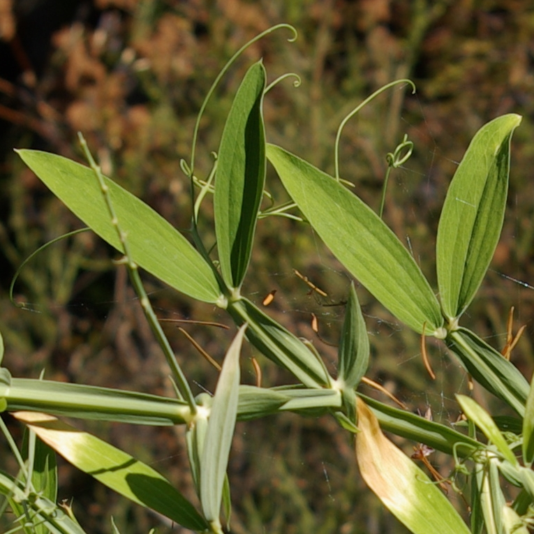 Lathyrus latifolius, Parksville, British Columbia. Identification courtesy of the E-Flora BC project